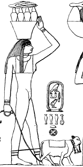 Personified agricultural estate of pharaoh Menkauhor as depicted on the south wall of the tomb of Ptahhotep II in Saqqara.